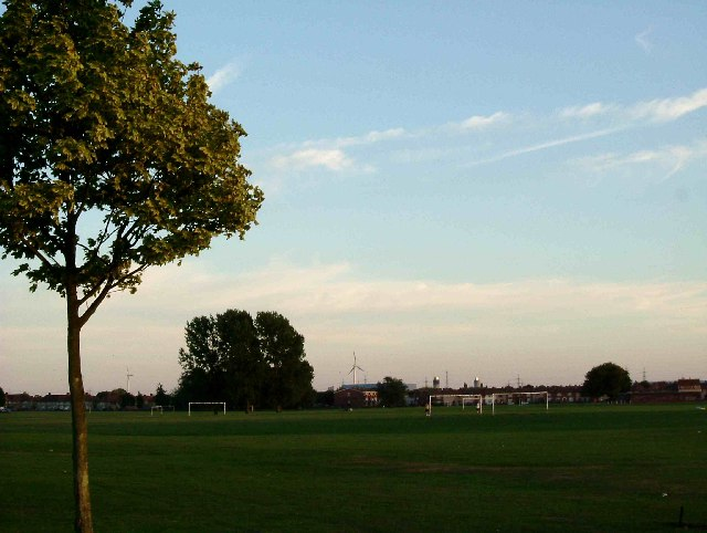 Parsloes Park Becontree. Parsloes Park Becontree one of a number of green spaces in the world’s biggest council estate. Ford’s wind turbines and the chimneys of the power station near Dagenham dock show how close it is to the industrial area.